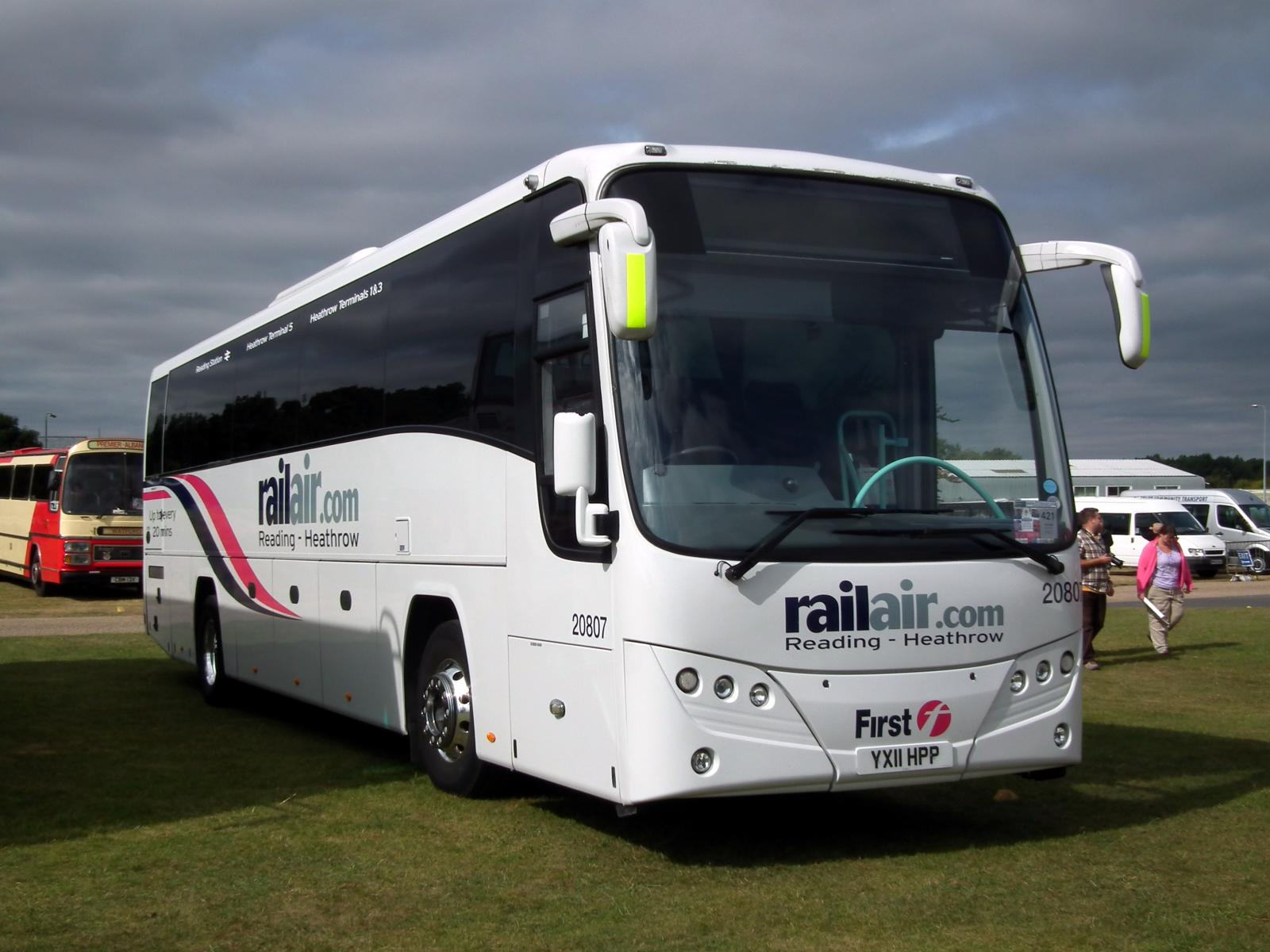 First Berkshire & The Thames Valley 20807 (YX11 HPP), a Volvo B9R/Plaxton Panther, seen at Showbus 2012.